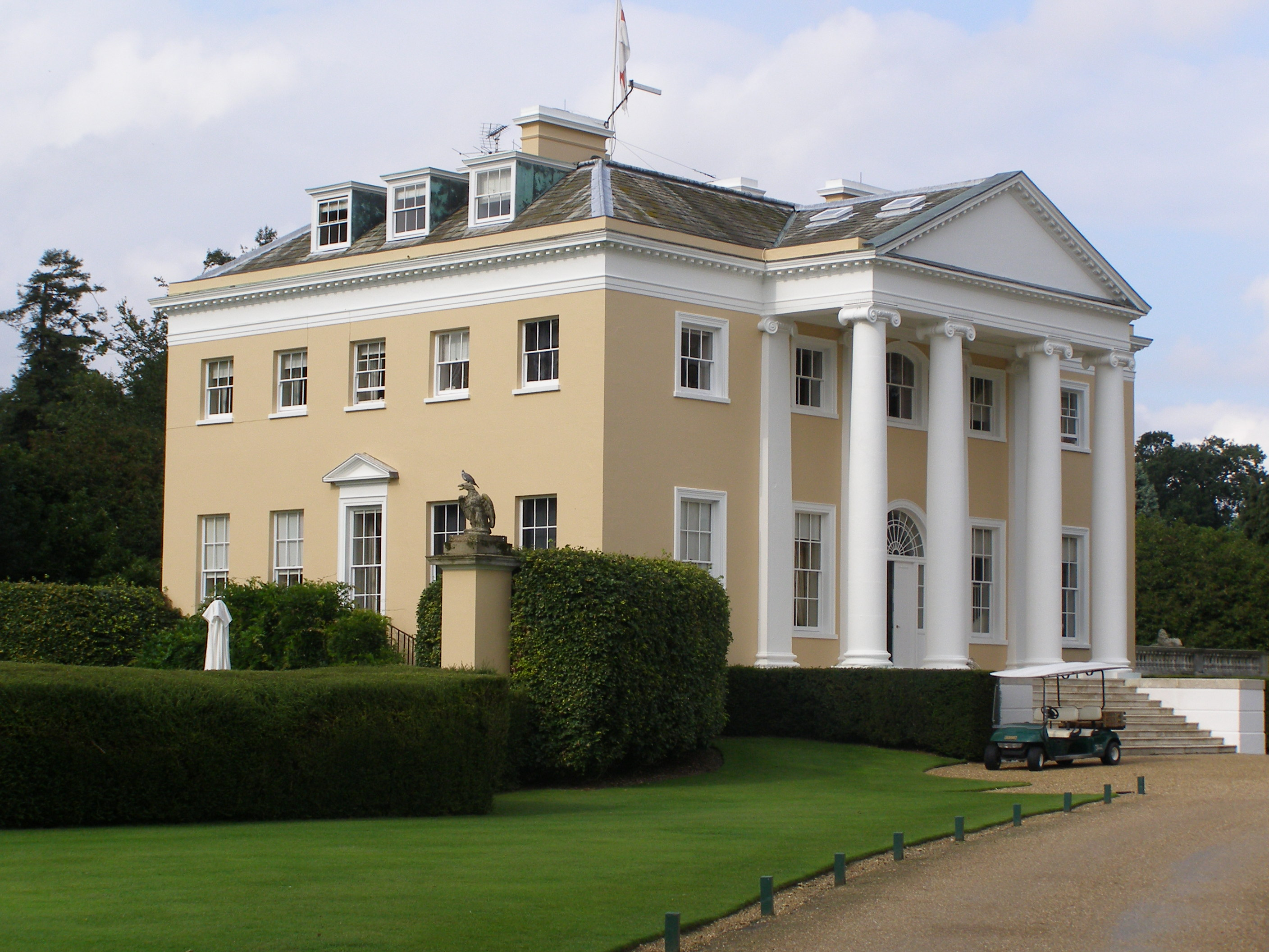 Howletts 18th century house near Canterbury Kent England